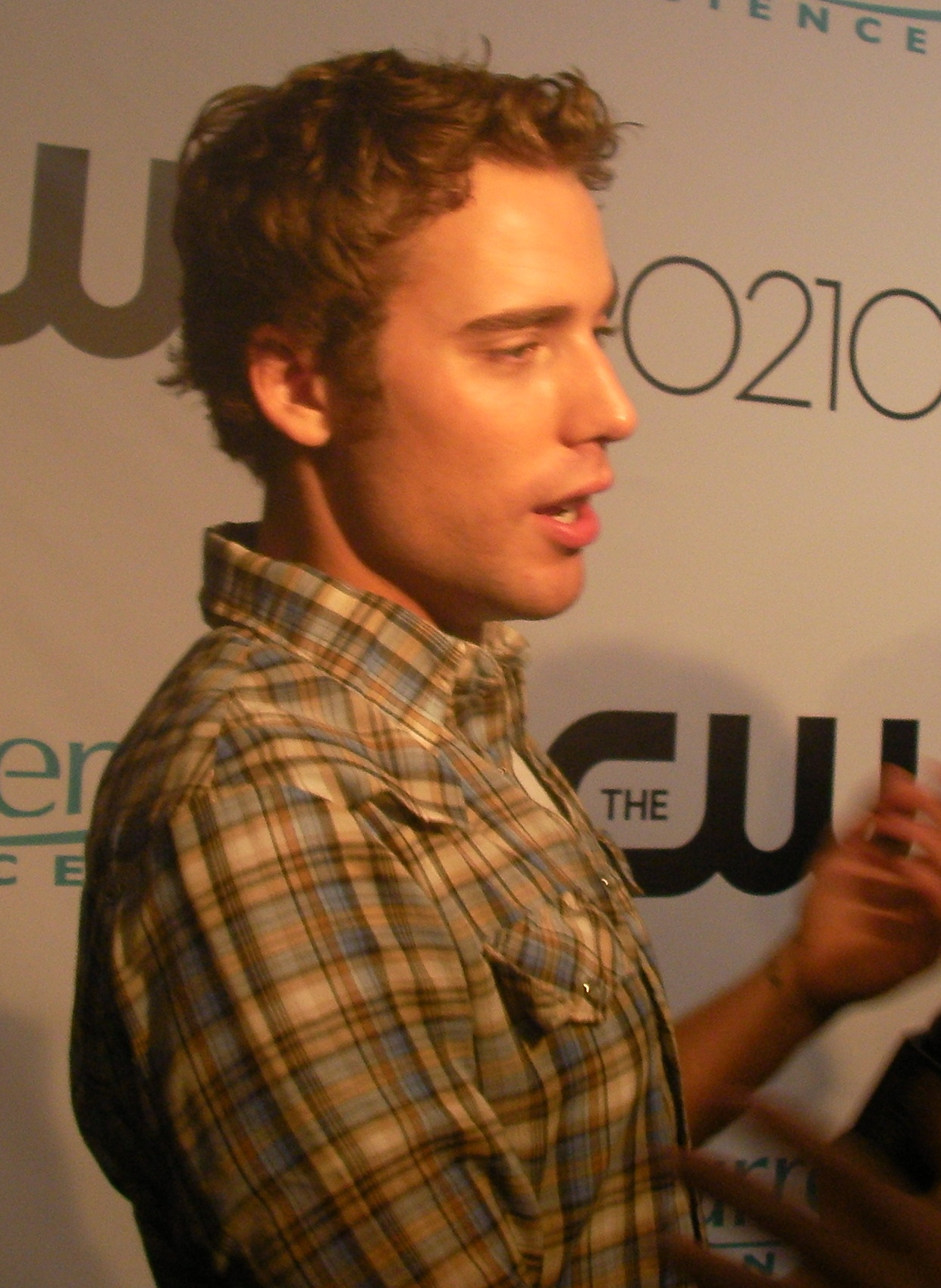 Dustin Milligan at the premiere party for CW's "90210," Malibu, California - Aug. 23, 2008